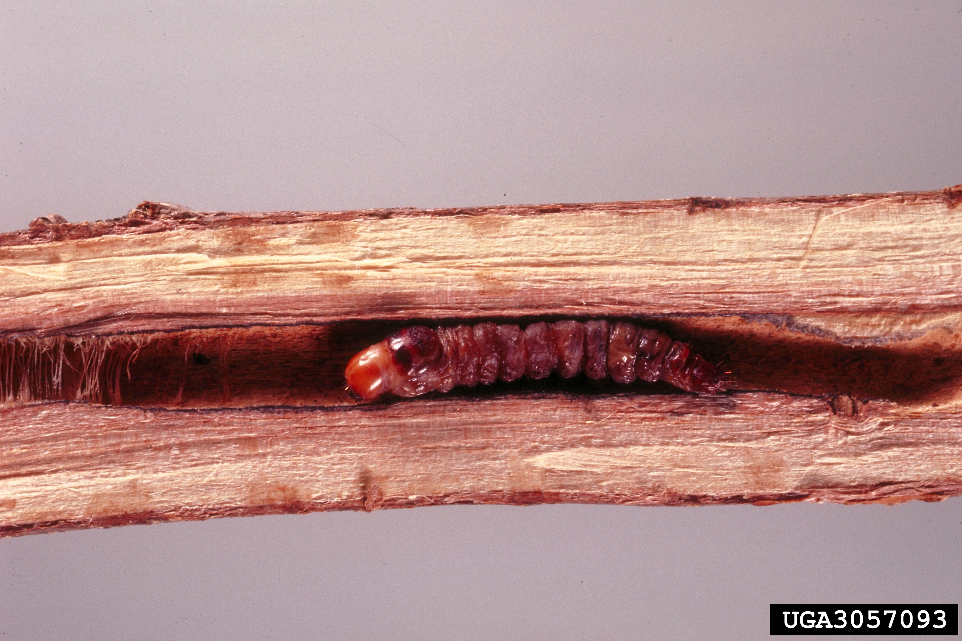 Cossula magnifica larva